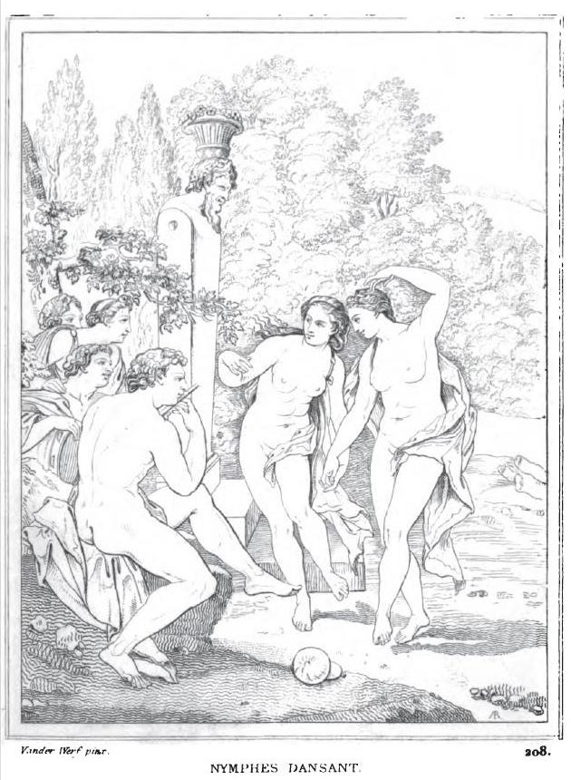 Nymphes dansant (engraving after painting by Vander Werf, Holland school, 1720?).